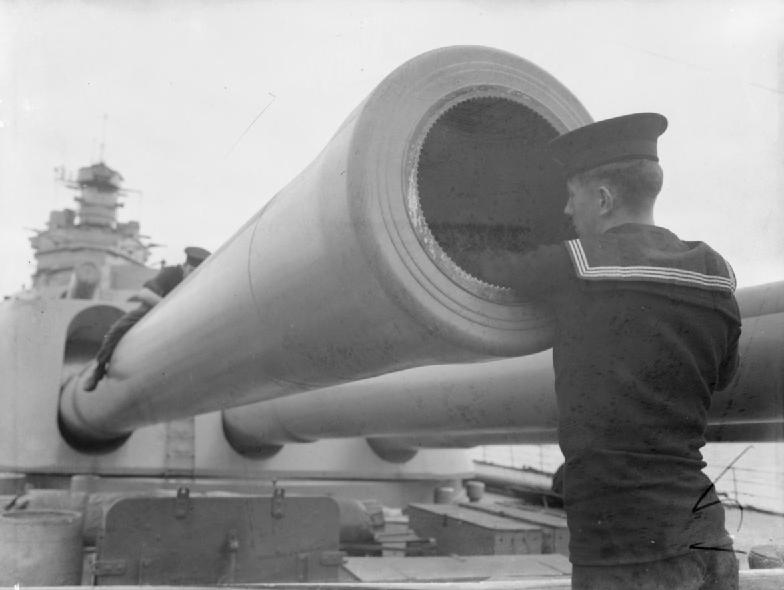 IWM caption : "One of the triple 16 inch guns in HMS RODNEY being cleaned out by a sailor whilst another can be seen straddling the barrel whilst he cleans it. The guns had to be kept in immaculate condition so they were ready for firing night or day."